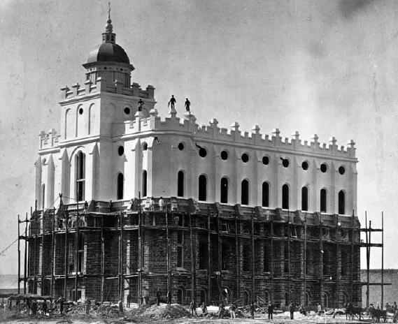 View of the St. George Utah temple prior to completion, lower half of the sandstone being prepared for a whitewash coating. The main tower was later damaged by lightning and replaced with a taller one. (Church History In The Fulness Of Times Student Manual, (2003), 406–421)